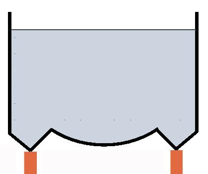 Scheme of the water-reservoir type "Intze 2"